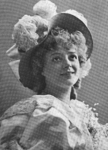 first published in US prior to 1923 - public domain